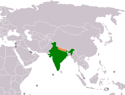 Bilateral locator map of India and Nepal.